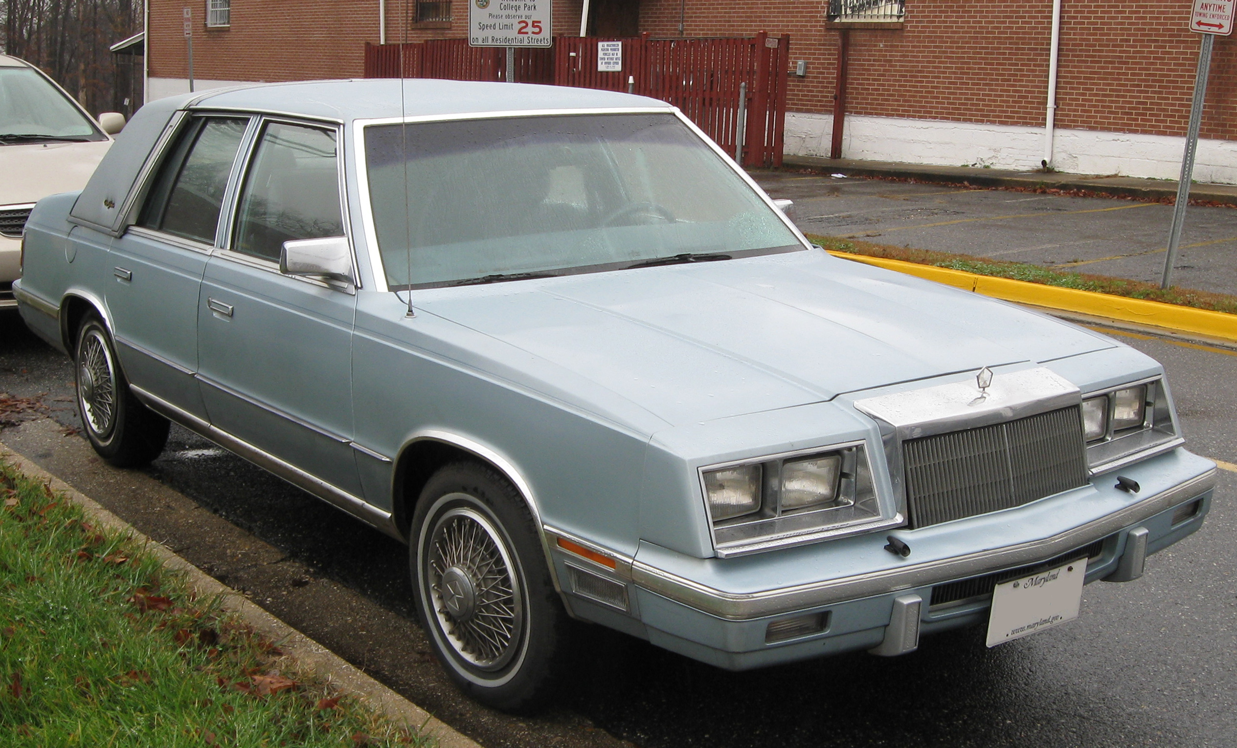 1983-1988 Chrysler New Yorker photographed in College Park, Maryland, USA.